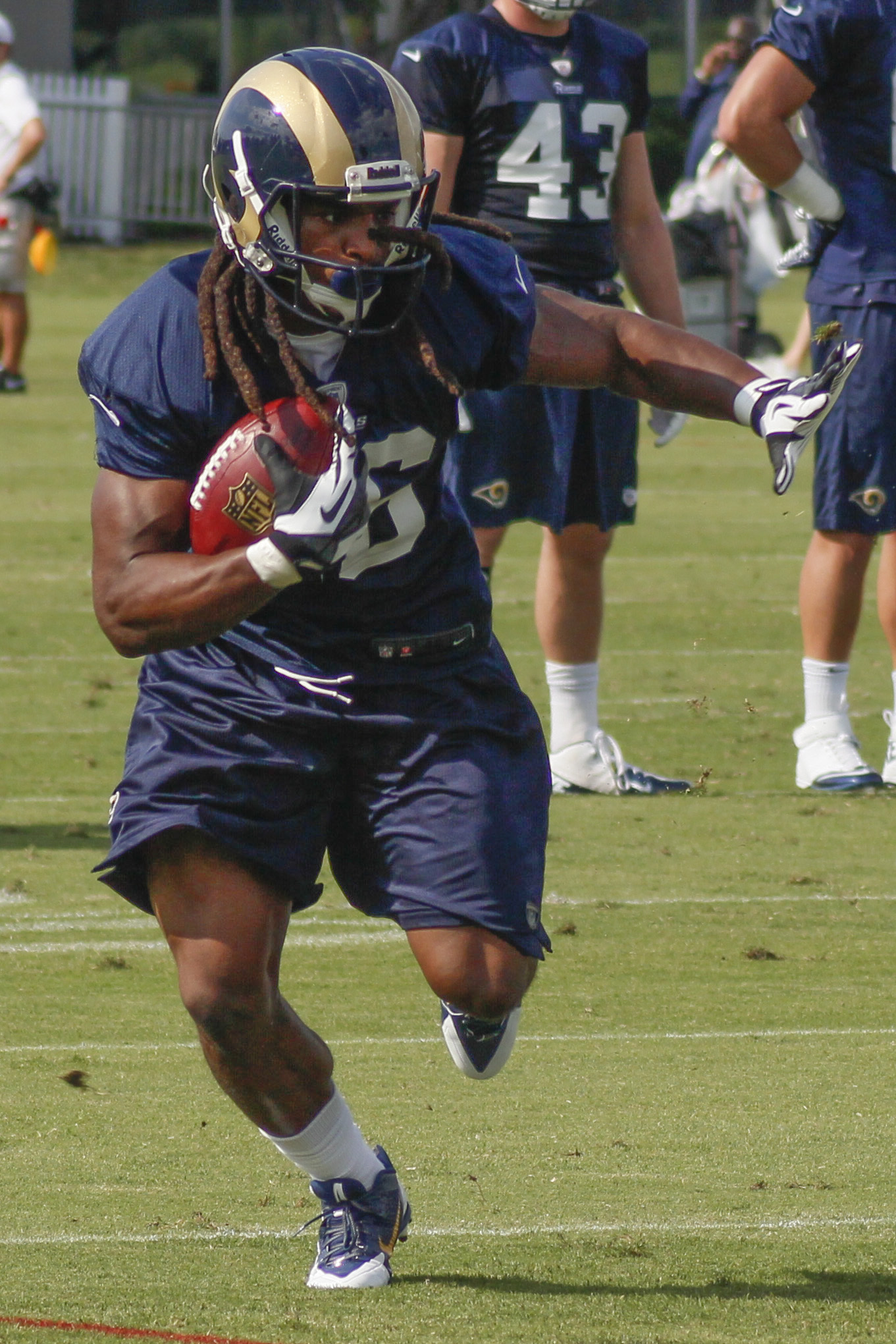 Rams player Daryl Richardson, 2013.